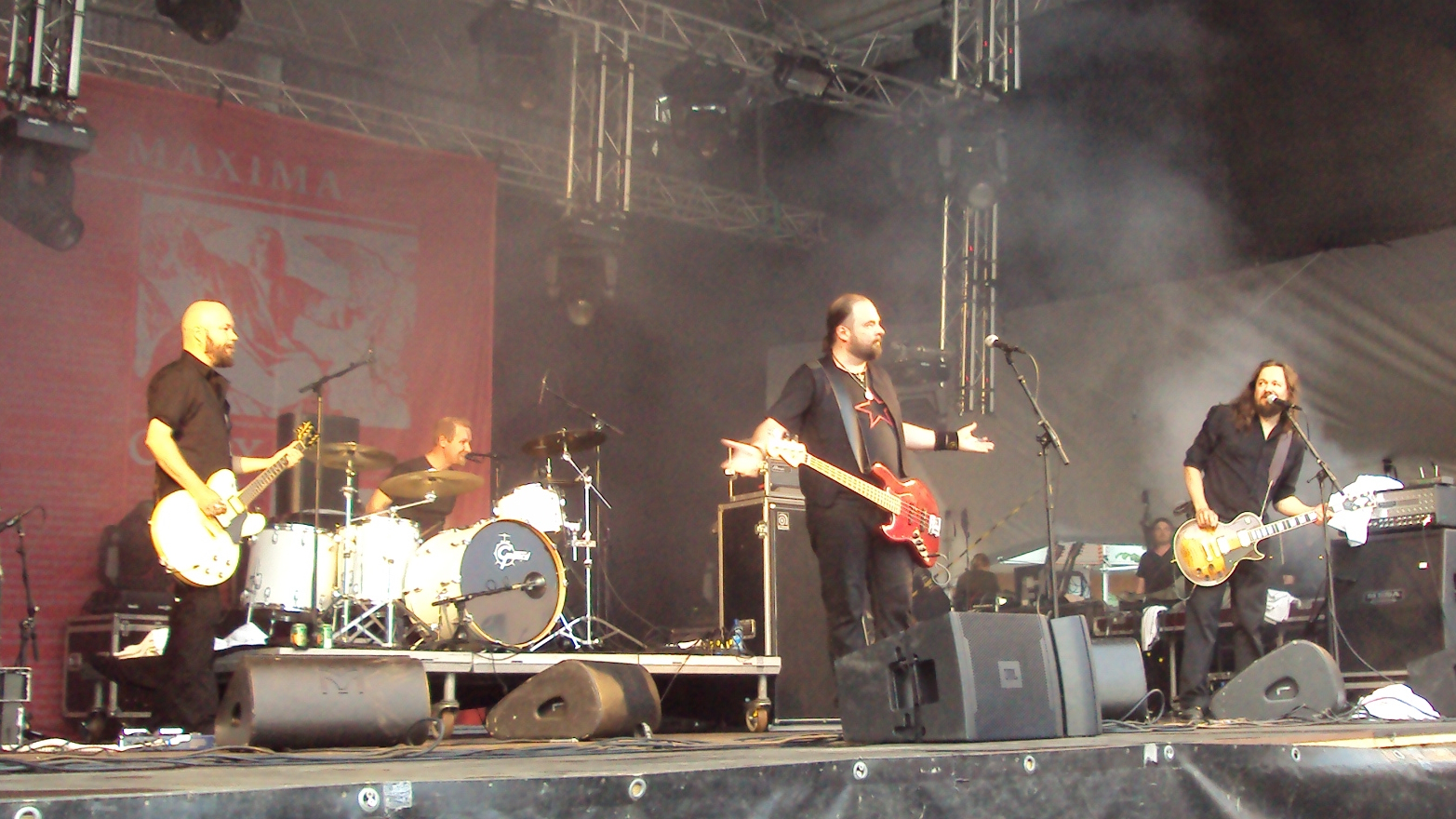 Finnish rock band CMX at Suomi Pop festival, Jyväskylä, Finland. Timo Rasio (guitar), Tuomas Peippo (drums), A. W. Yrjänä (bass & vocals), Janne Halmkrona (guitar)